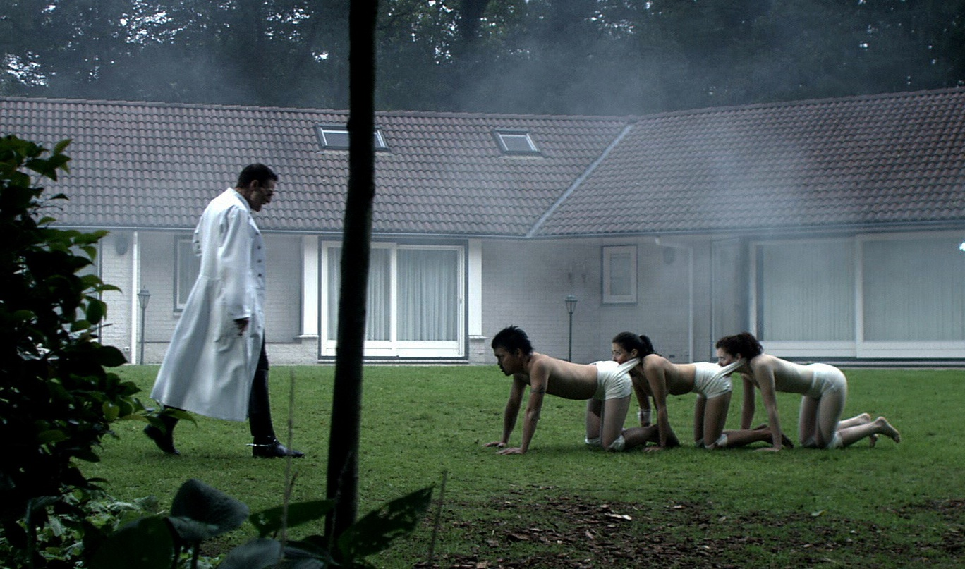 A still image from The Human Centipede. In this scene, Dr. Heiter attempts to "train" his completed centipede.